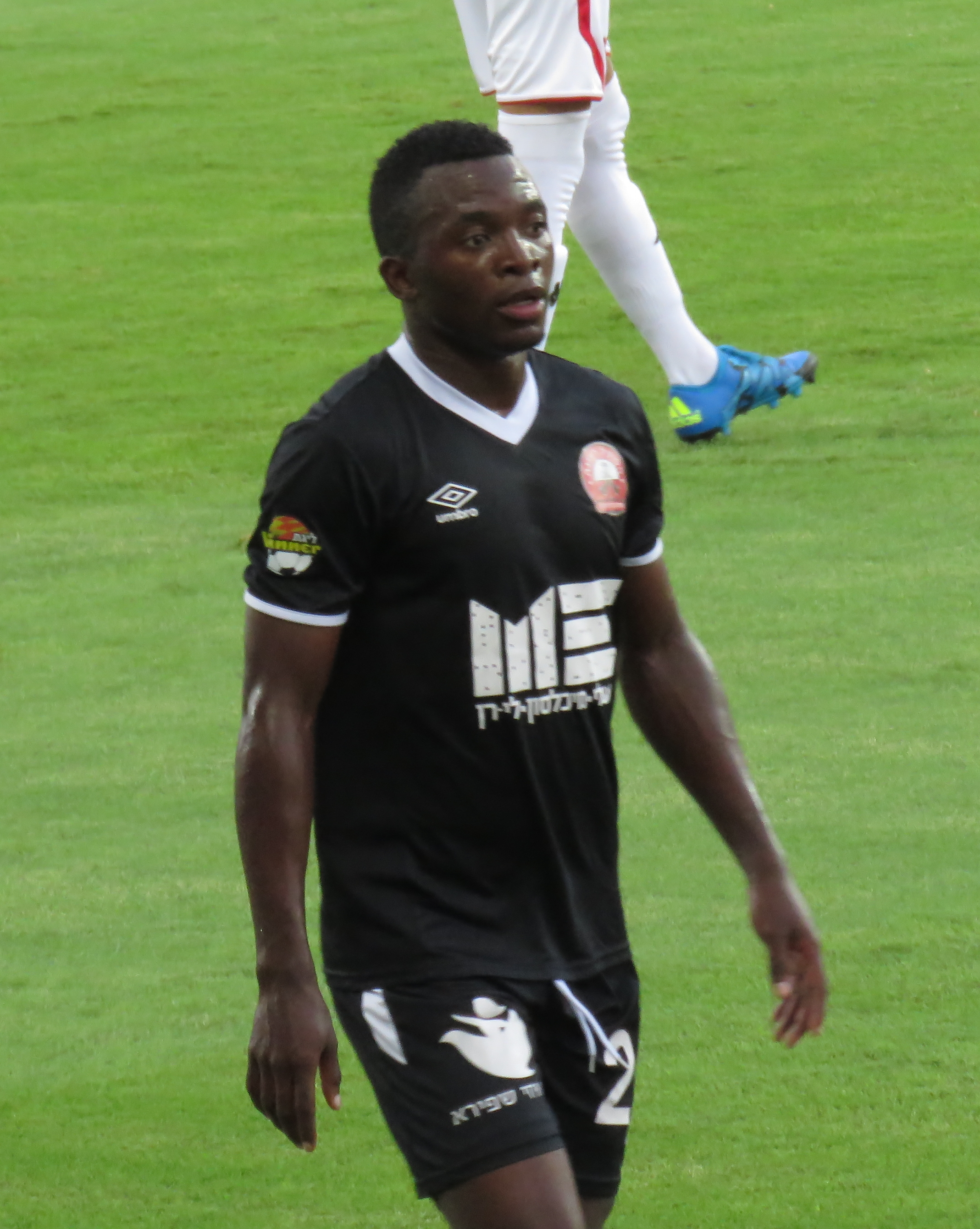 Hapoel Ra'anana vs. Hapoel Be'er Sheva - September 12, 2015